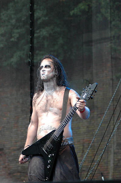 Polish death metal band Hate